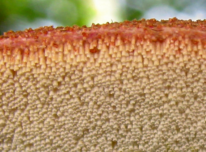 Fistulina hepatica (Schaeff.) With. Location: Babcock State Park, Fayette Co., West Virginia, USA For more information about this, see the observation page at Mushroom Observer.